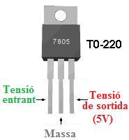 A 7805 regulator integrated circuit